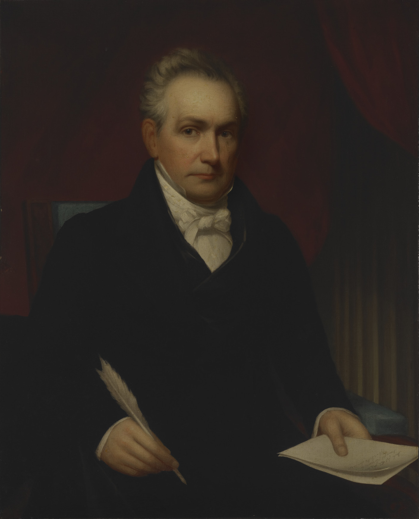 Copy after Jocelyn's 1840 portrait, residing in Litchfield, Connecticut